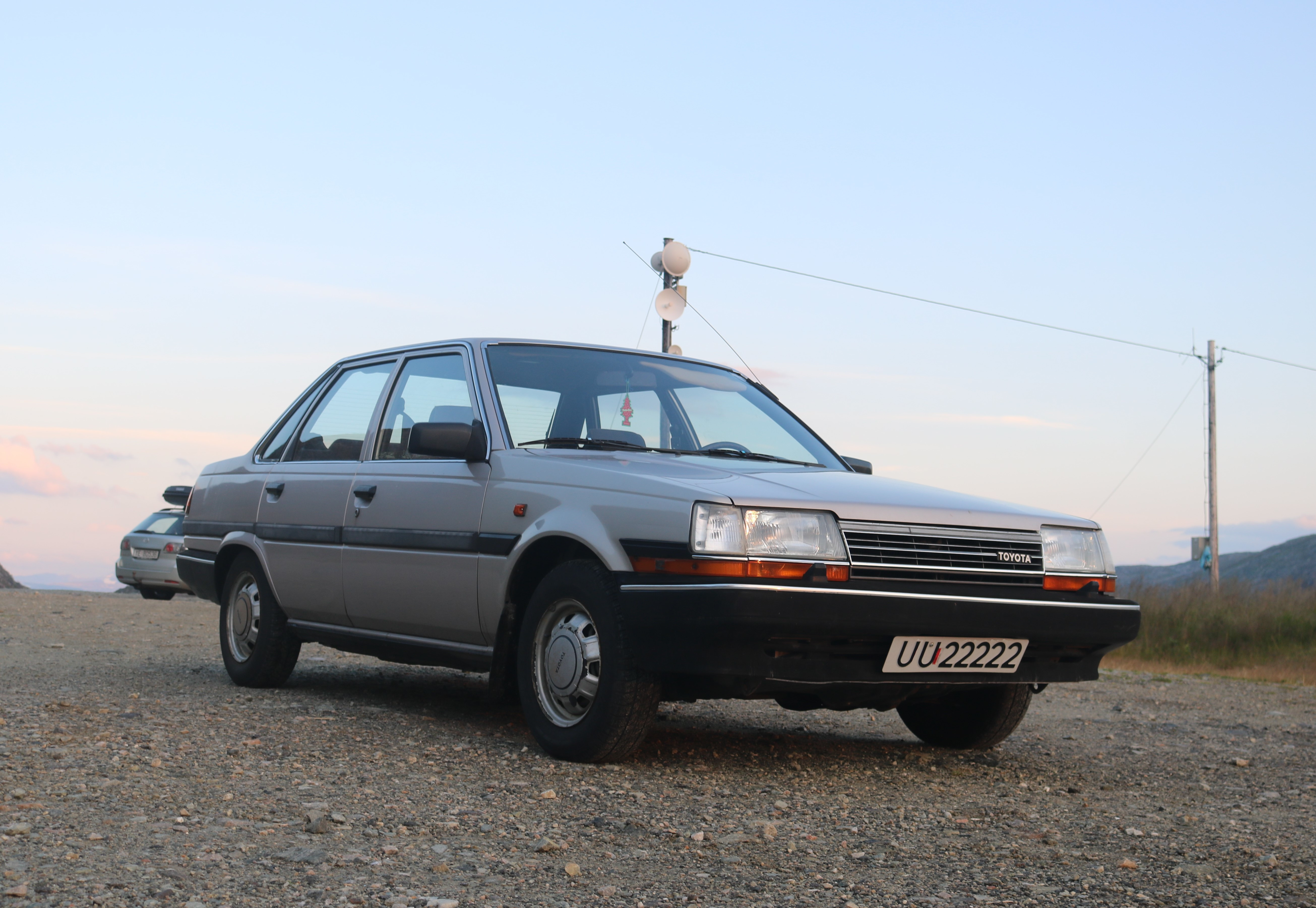 A 1986 Toyota Carina II 1.6 (AT151)